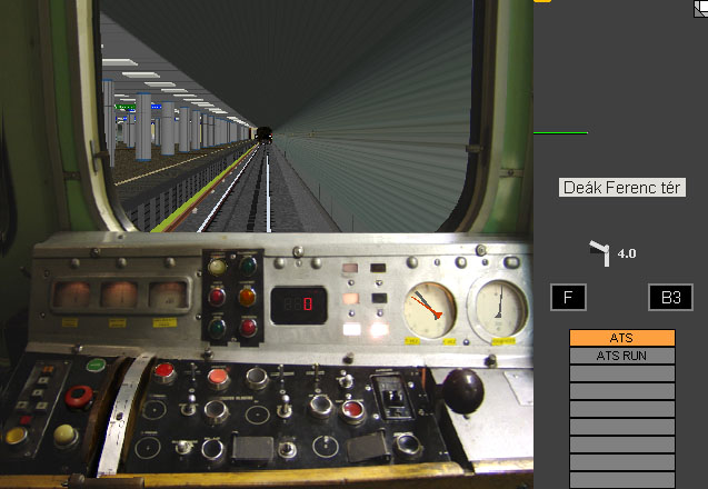 Deák Ferenc tér station in the PC game BVESee more: bvemetro.hu